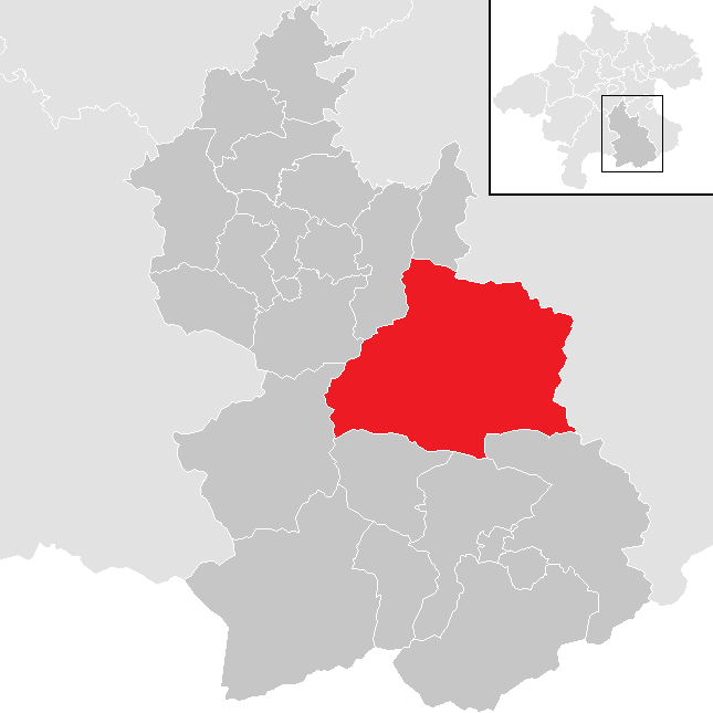 district Kirchdorf an der Krems